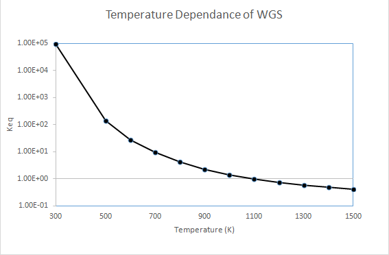 Keq WGS Temperature Dependence